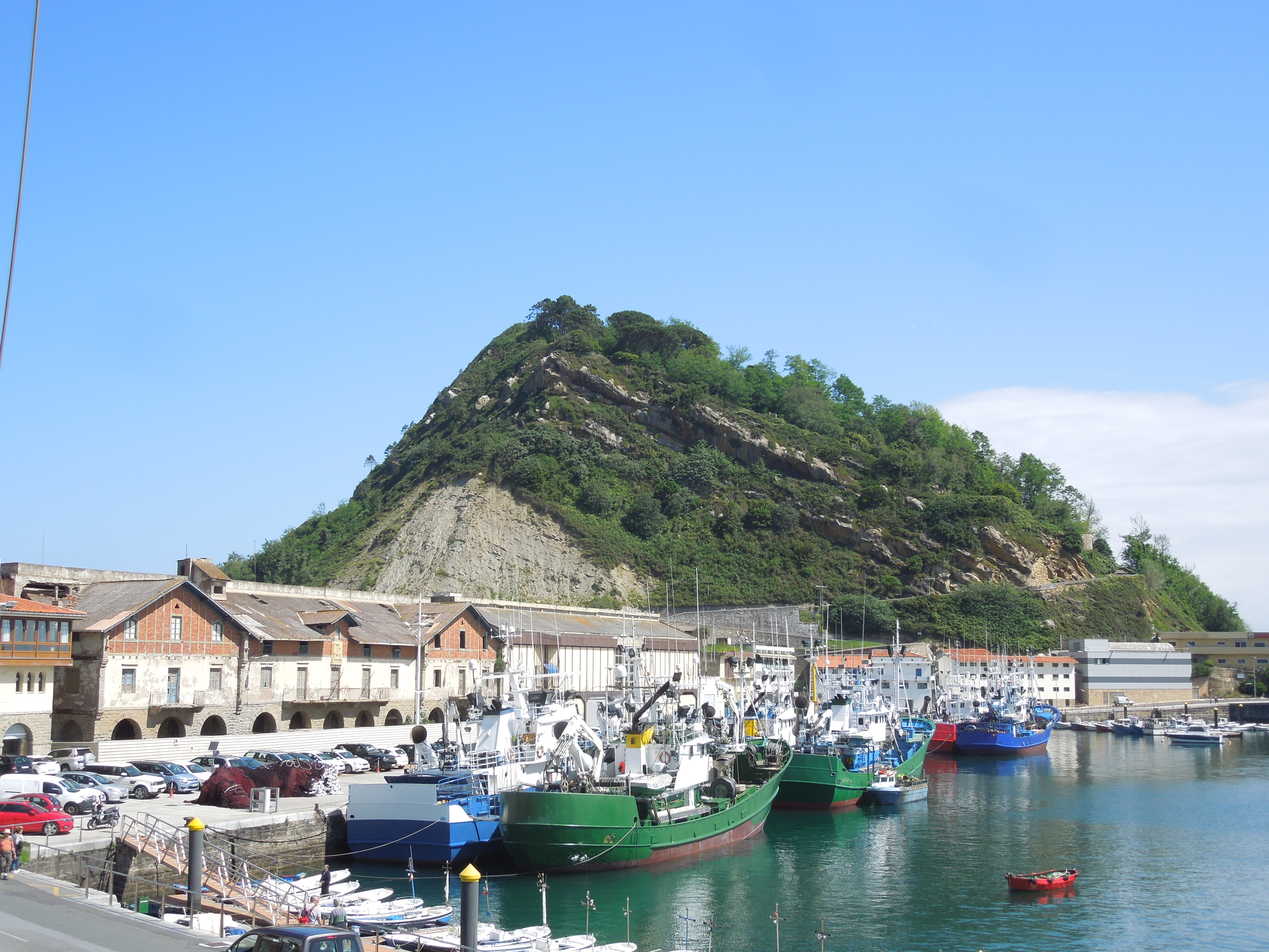 Getaria: harbour and Mount San Anton, formerly an island